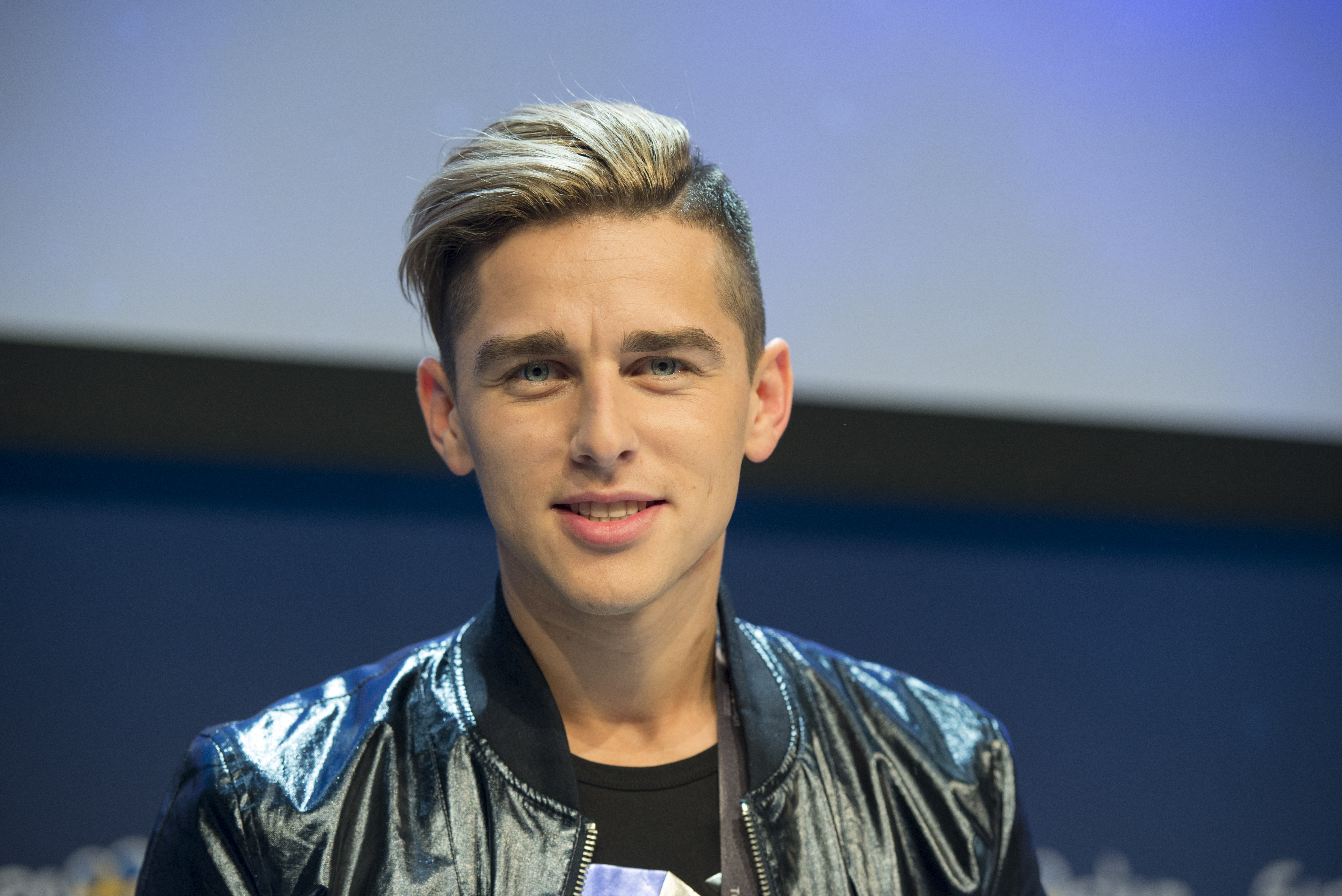 Donny Montell at a Meet & Greet during the Eurovision Song Contest 2016 in Stockholm. (Help translate this text)